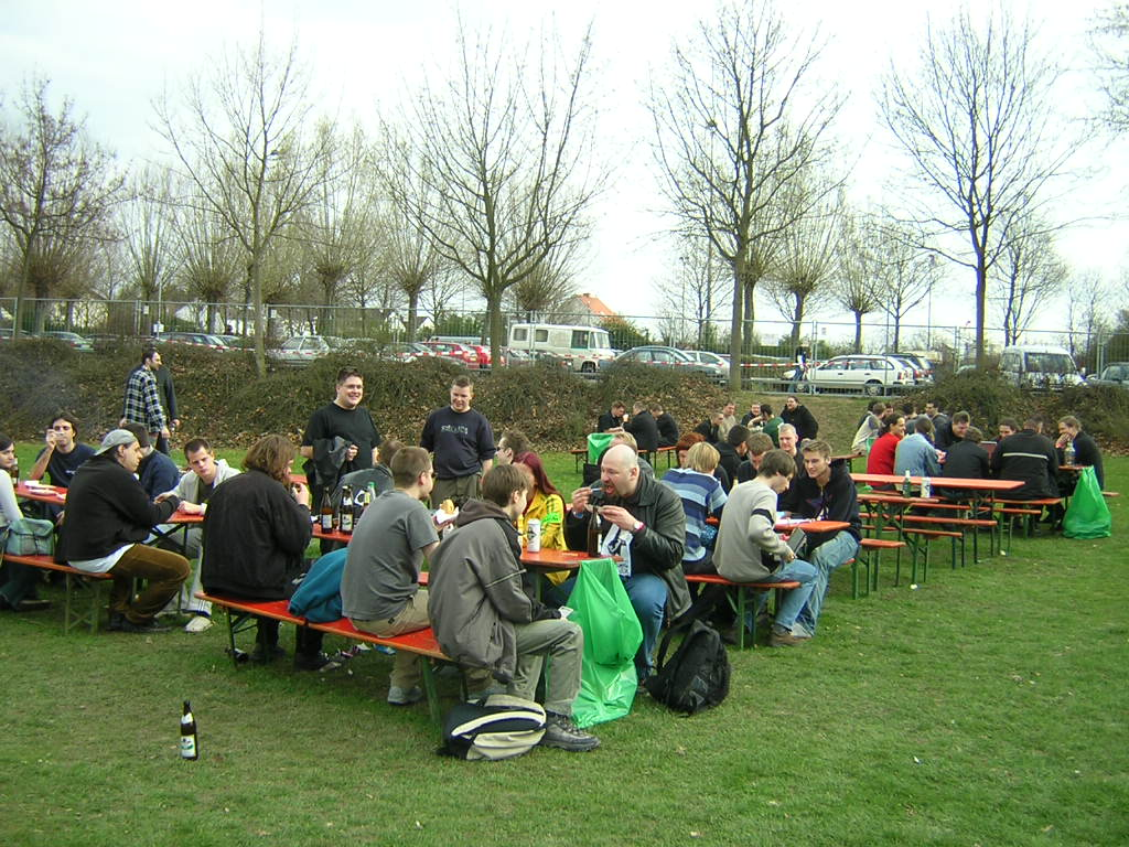 Breakpoint 2005 Photo taken by: User:Gargaj